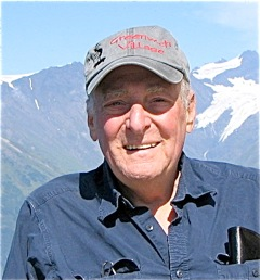 This is David Roland on the US west coast.